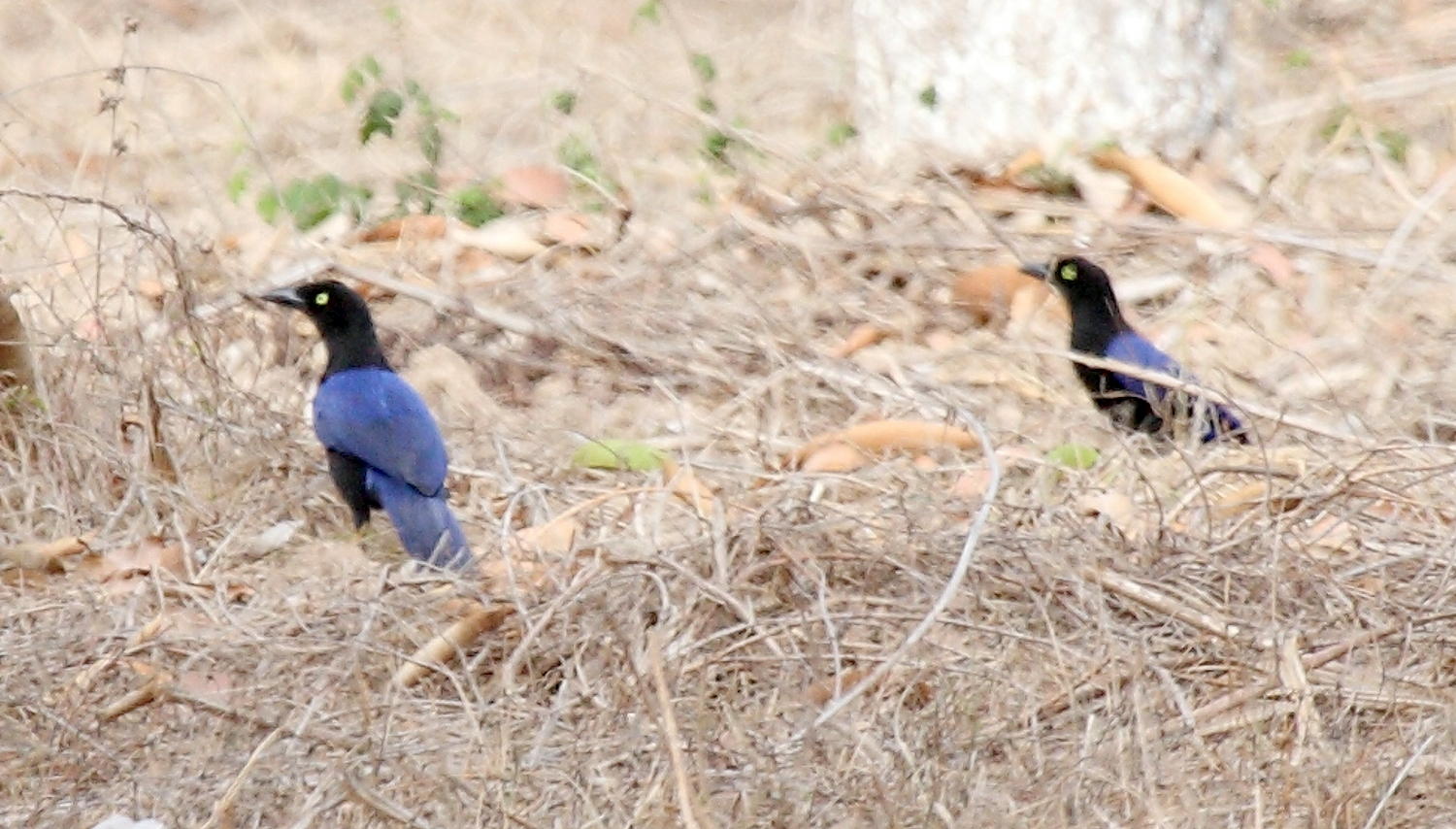 Purplish-backed Jay (Cyanocorax beecheii)